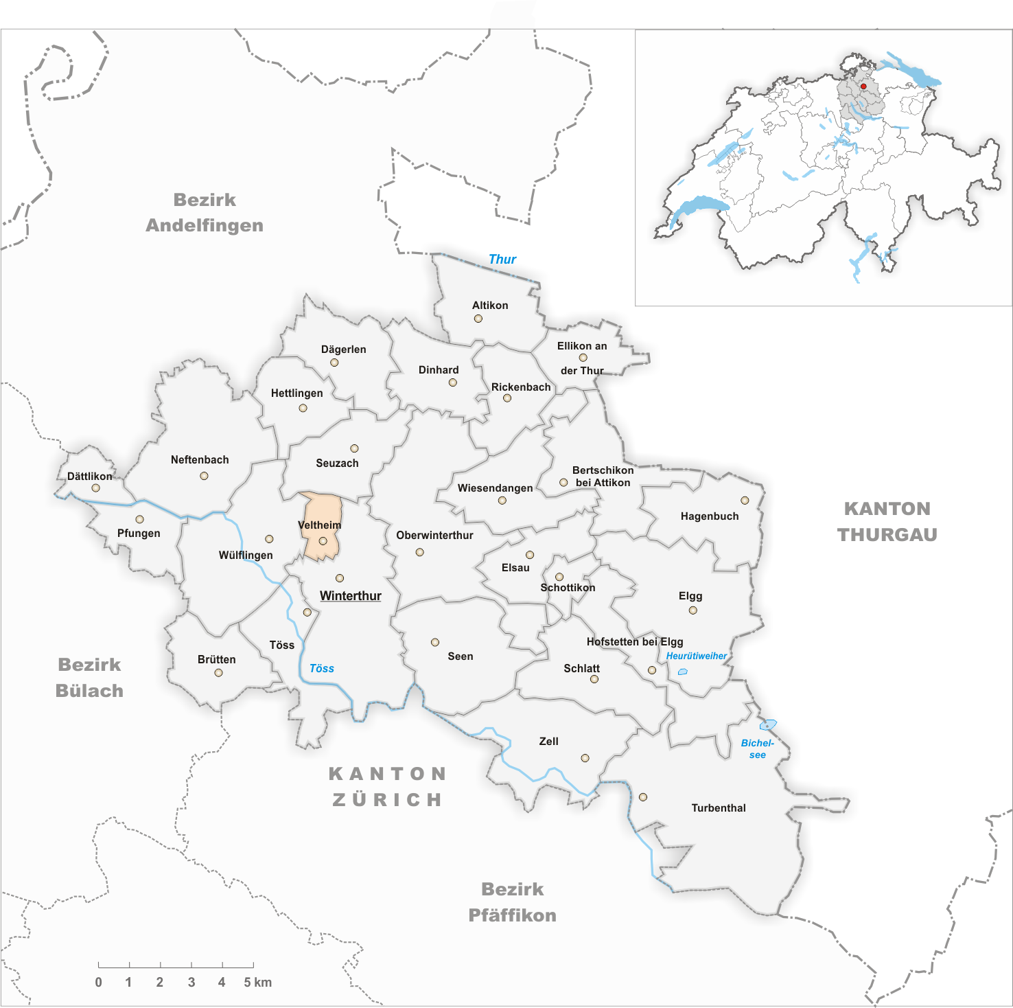 Municipality Veltheim